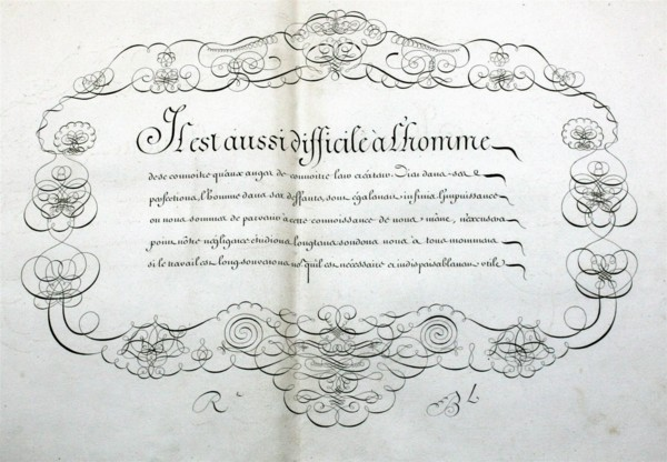 Extract of Sébastien Royllet's Nouveaux principes d'écriture (Paris, 1731).